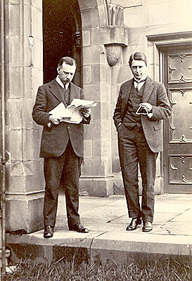 Professors William Harrison Moore (right) and Ernest Scott (left) standing outside the Old Law building, University of Melbourne.